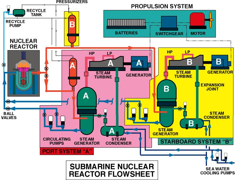 Description: Nuclear Submarine Propulsion System Author: Webber Source: "own work" Date: January 2007